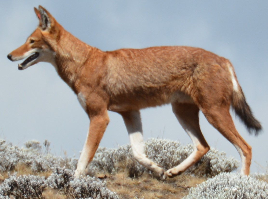 Ethiopian wolf, Bale Mountains National Park.